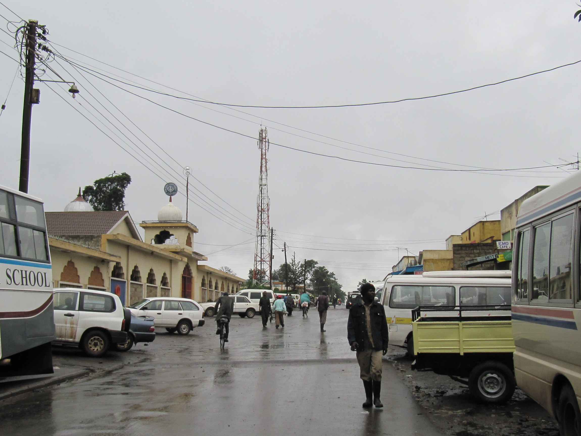 Eldoret. Kenya